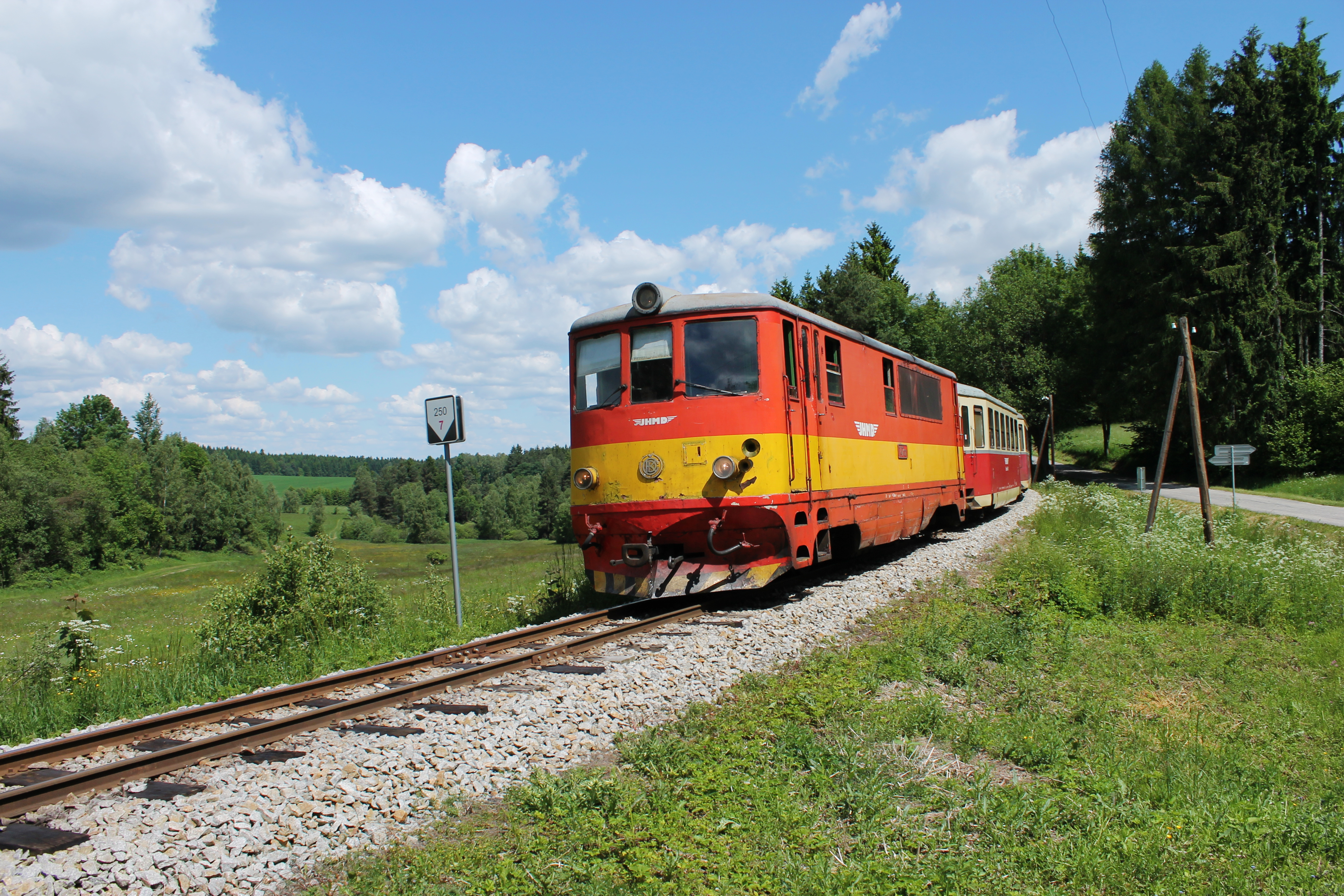 JHMD train with T 47.021 (705.921) diesel locomotive, Senotín, Jindřichův Hradec District, Czech Republic